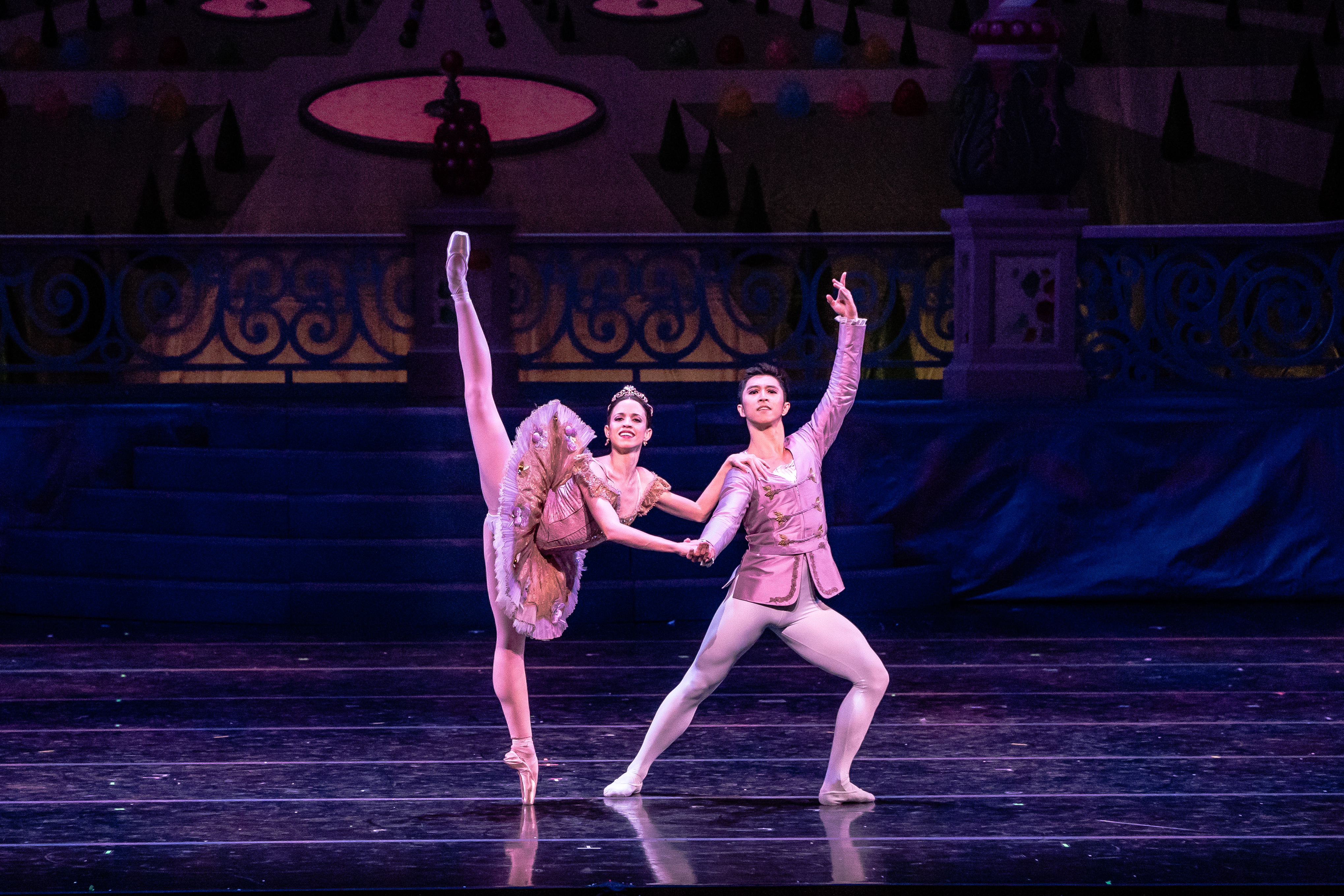 KCB Dancers Amaya Rodriguez & Liang Fu. Photography by Brett Pruitt & East Market Studios.